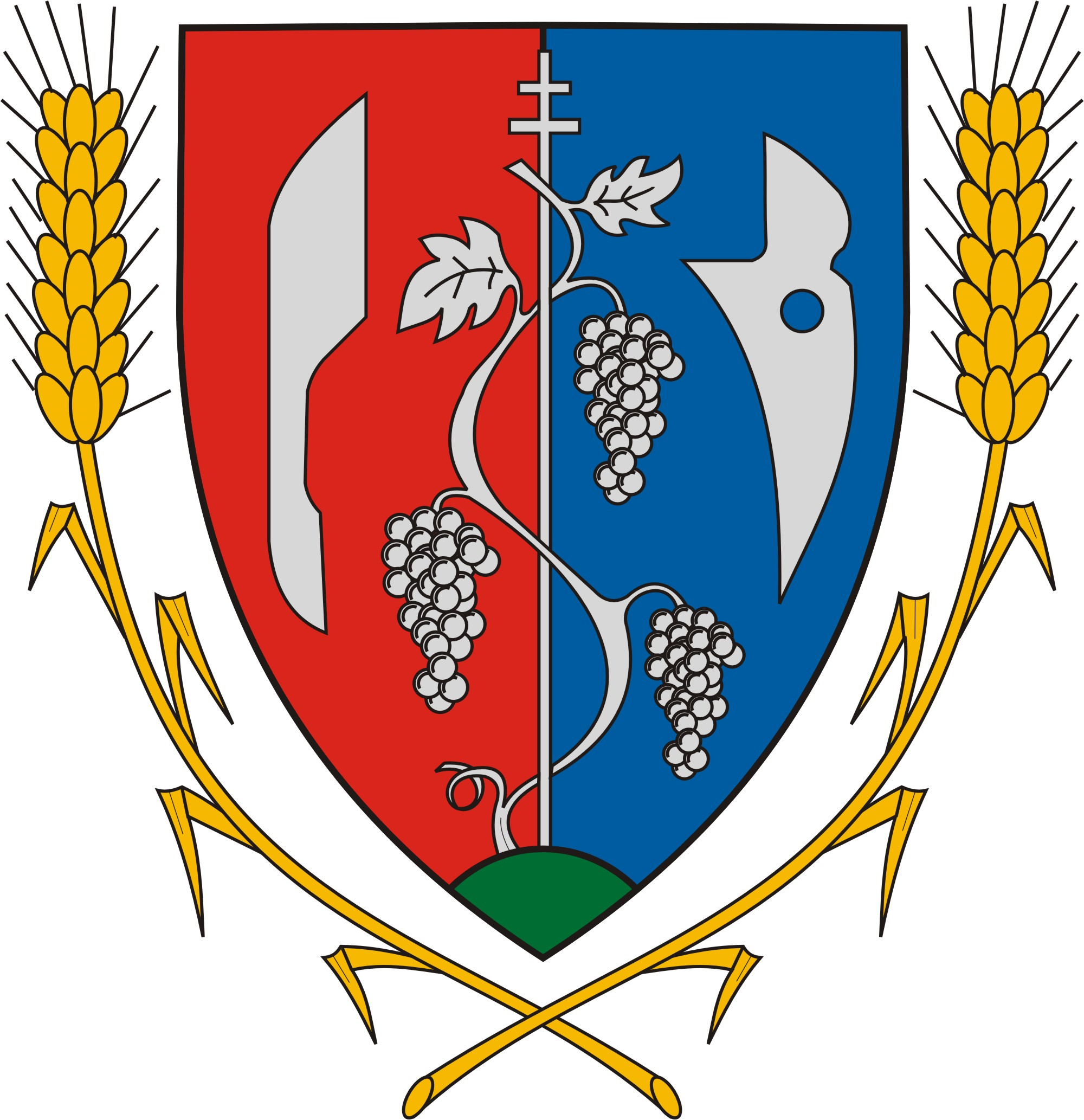 Coat of arms of Sződ, Hungary